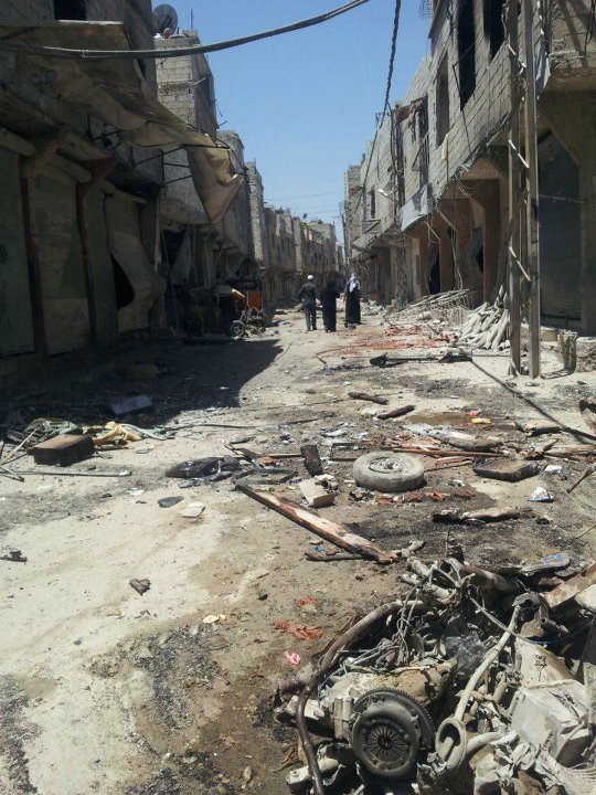 DESTROYER BUILDINGS IN Qaboun